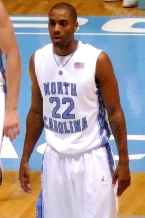 Wayne Ellington, formerly of North Carolina Tar Heels men's basketball